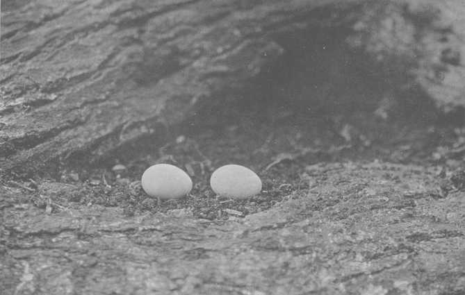 Photo (taken in 1911) of eggs of the South Island Bush Wren (Xenicus longipes longipes). From Bird Life on Island and Shore (1925) by Herbert Guthrie-Smith (1862–1940).